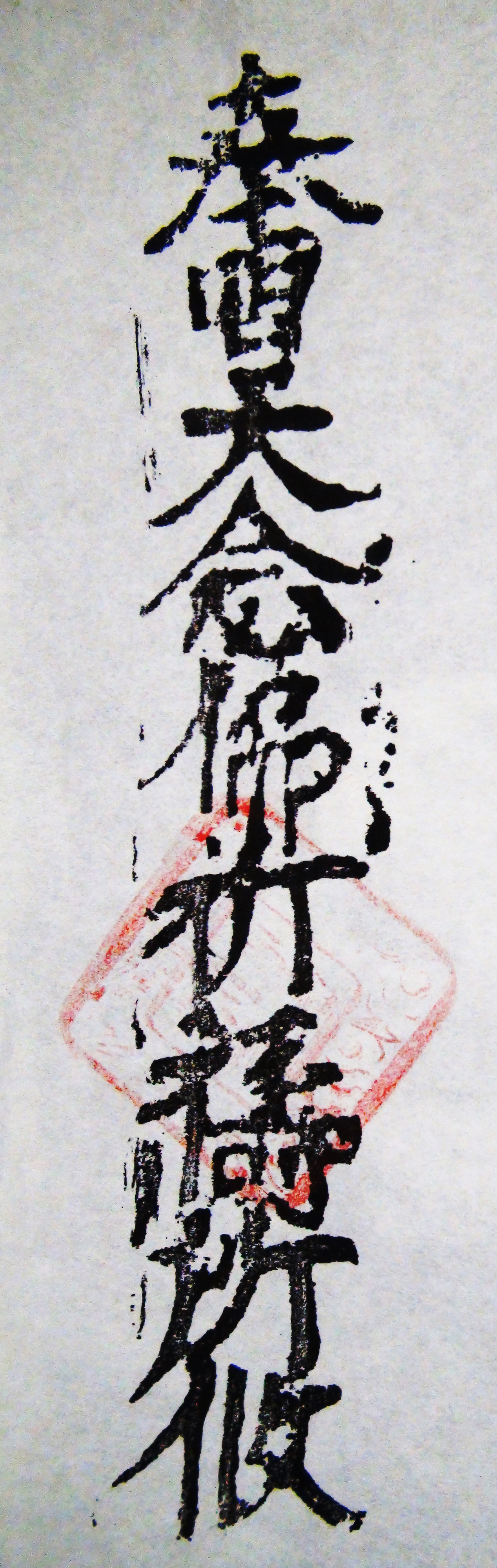 Mushono-Dainembutsu amulet paper